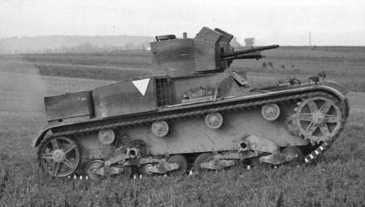 Polish Vickers Mark E type A tank with 13.2 mm Hotchkiss wz. 30 MG in left turret.